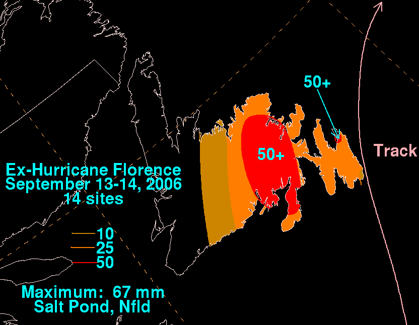 Rainfall produced by Hurricane Florence during September 2006.